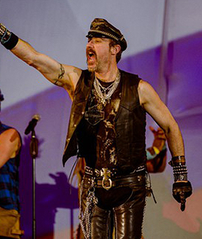 Eric Anzalone from Village People performs in Belgium - June 27, 2014.